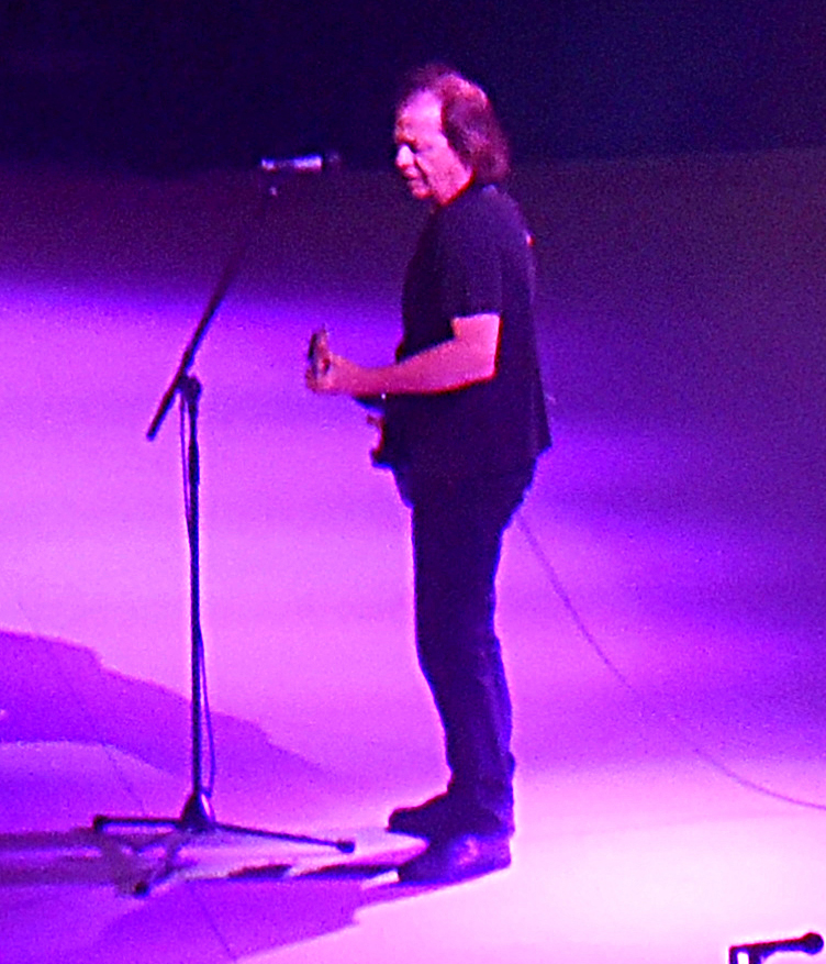 Stevie Young performing with AC/DC at the Tacoma Dome in Tacoma, WA on February 2nd, 2016.